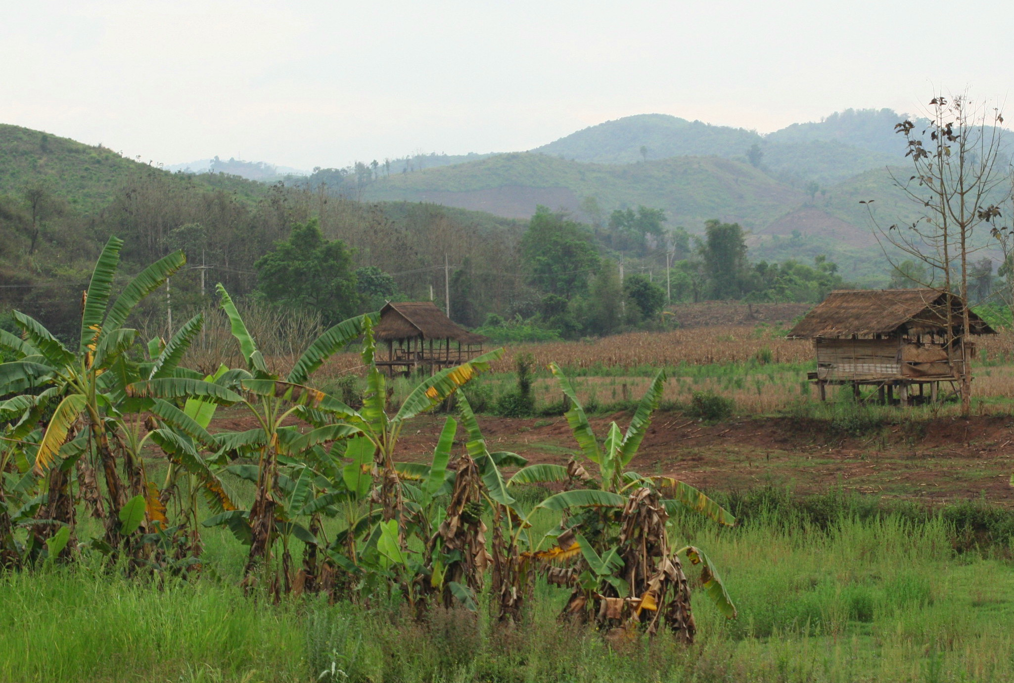 Province of Loung Namtha just after crossing the Chinese border